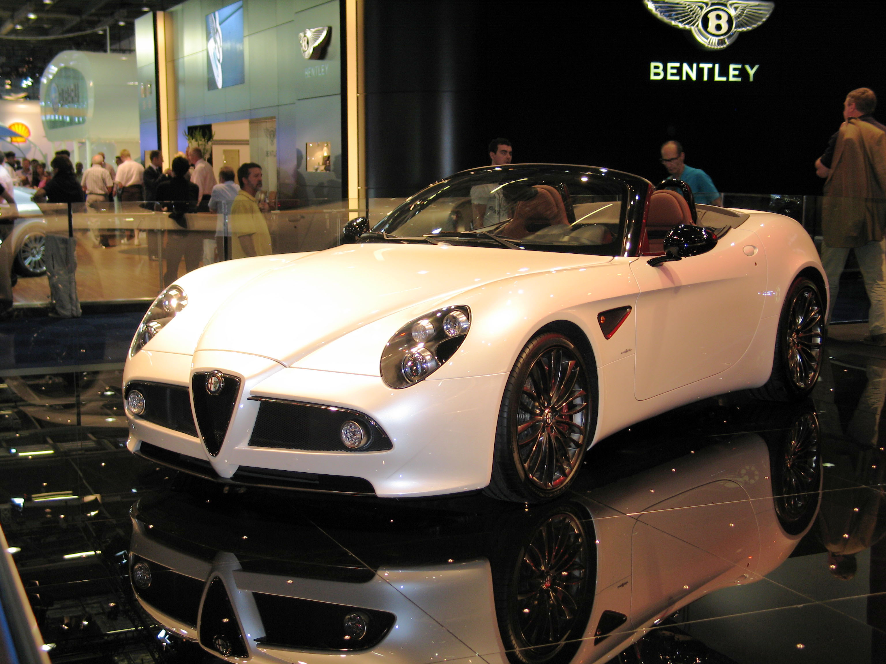 Alfa 8C Spider British Motor Show 2008